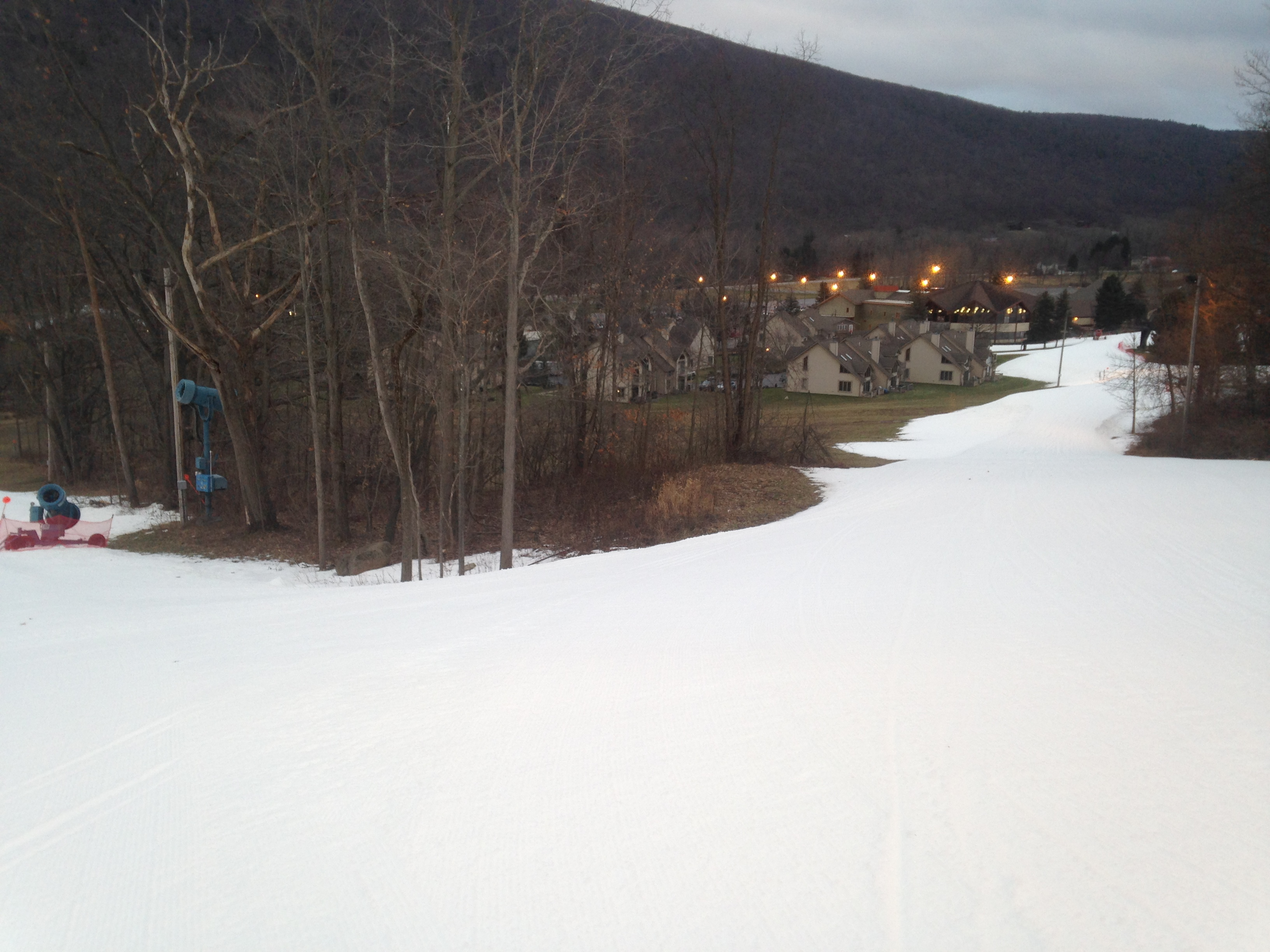 Boutique housing at ski resort base in NY from lower part of mountain ski trail. Bristol Mountain Ski Resort.